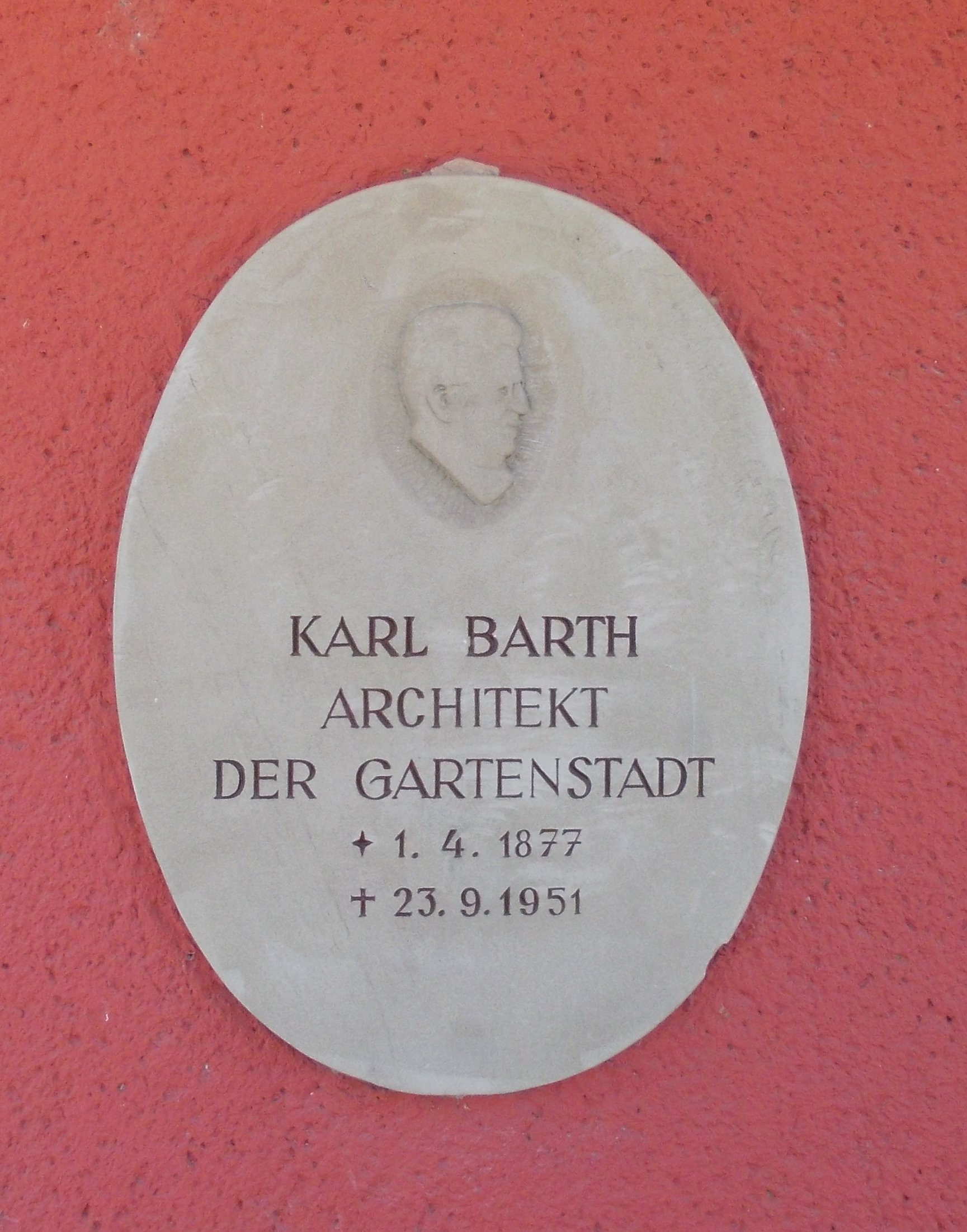 Memorial plaque to Karl Barth, the architect of the garden city of Leuna (district of Saalekreis, Saxony-Anhalt), at the pavilion at Sachsenplatz